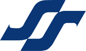 Traced in Adobe Photoshop from File:Eki-Dainohara.JPG. Used in Nanboku Line to establish visual identity.